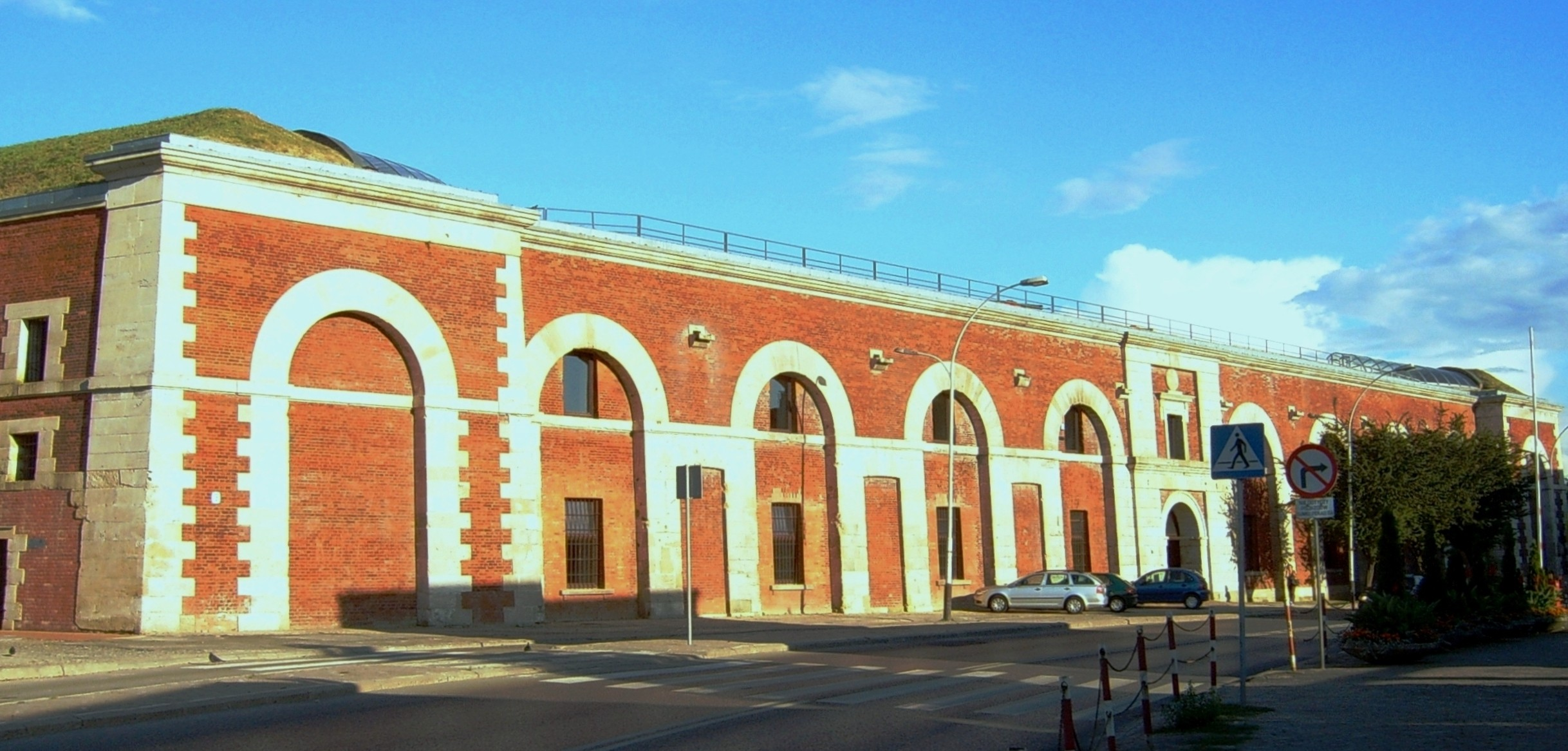 Cavalier (entrenchment) on the Fortress of Zamość